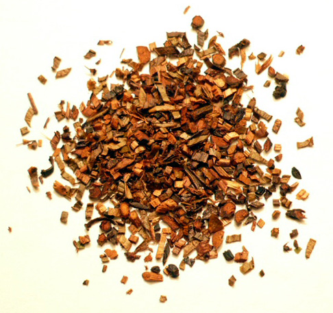 Organic honeybush tea leaves. Photo taken in Kent, Ohio with a Panasonic Lumix digital camera (model DMC-LS75). Organic honeybush tea leaves purchased from Mountain Rose Herbs of Eugene, Oregon, United States.